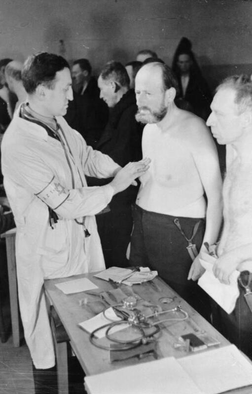 Warsaw Ghetto